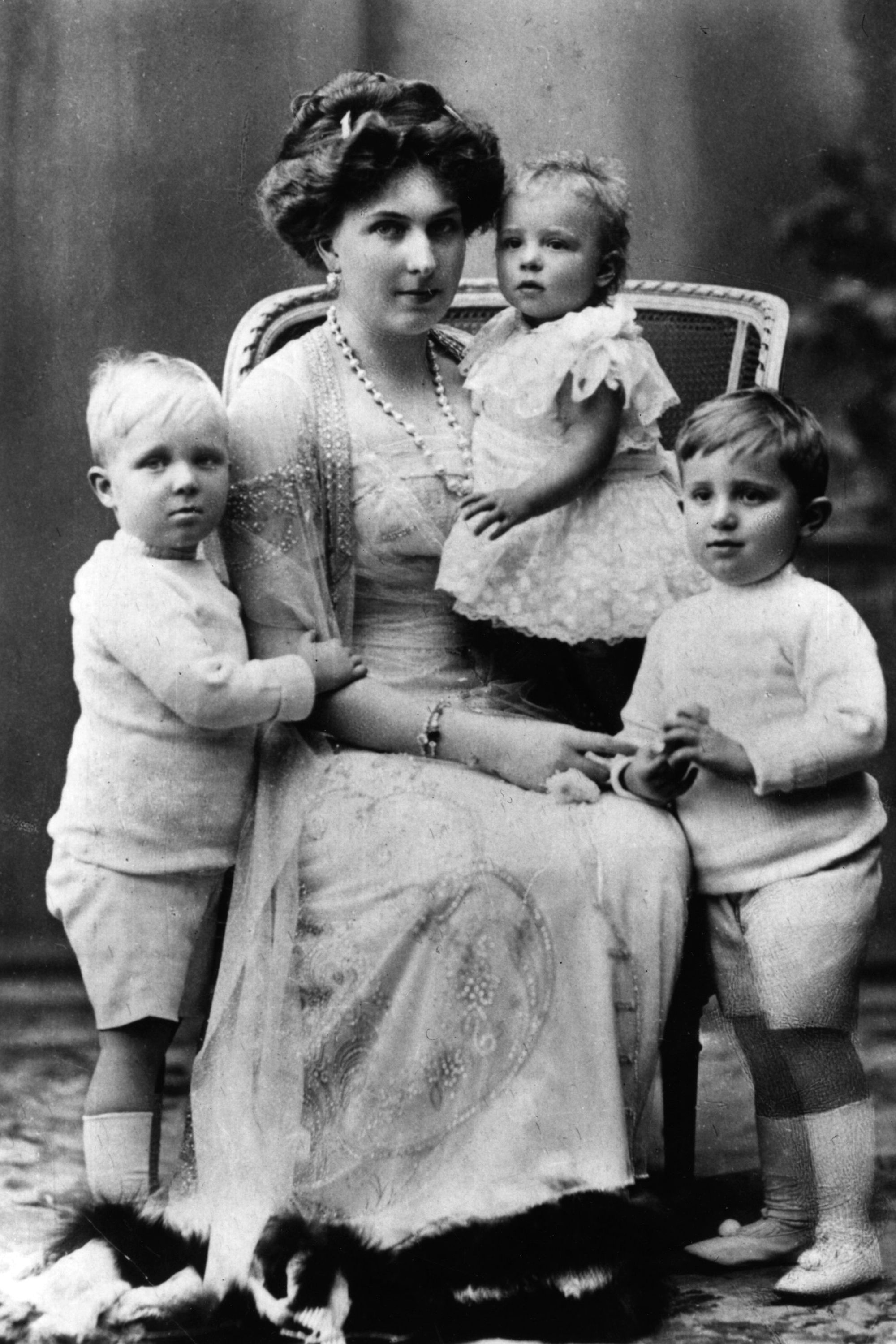 Ena, Queen of Spain and children. Photograph by Christian Franzen (Madrid), circa 1911.[1]